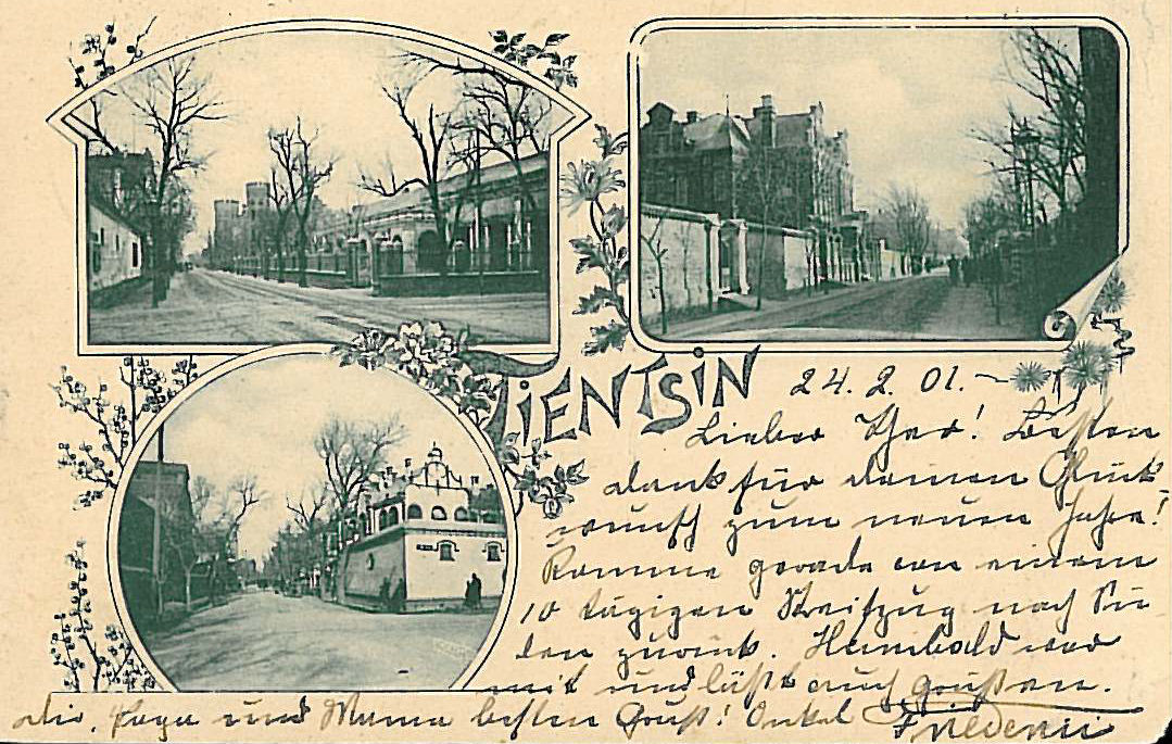 historical view of Tianjin